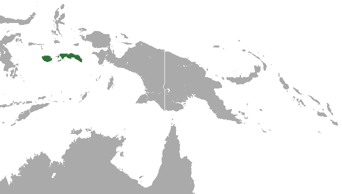 Ceram Fruit Bat (Pteropus ocularis) range